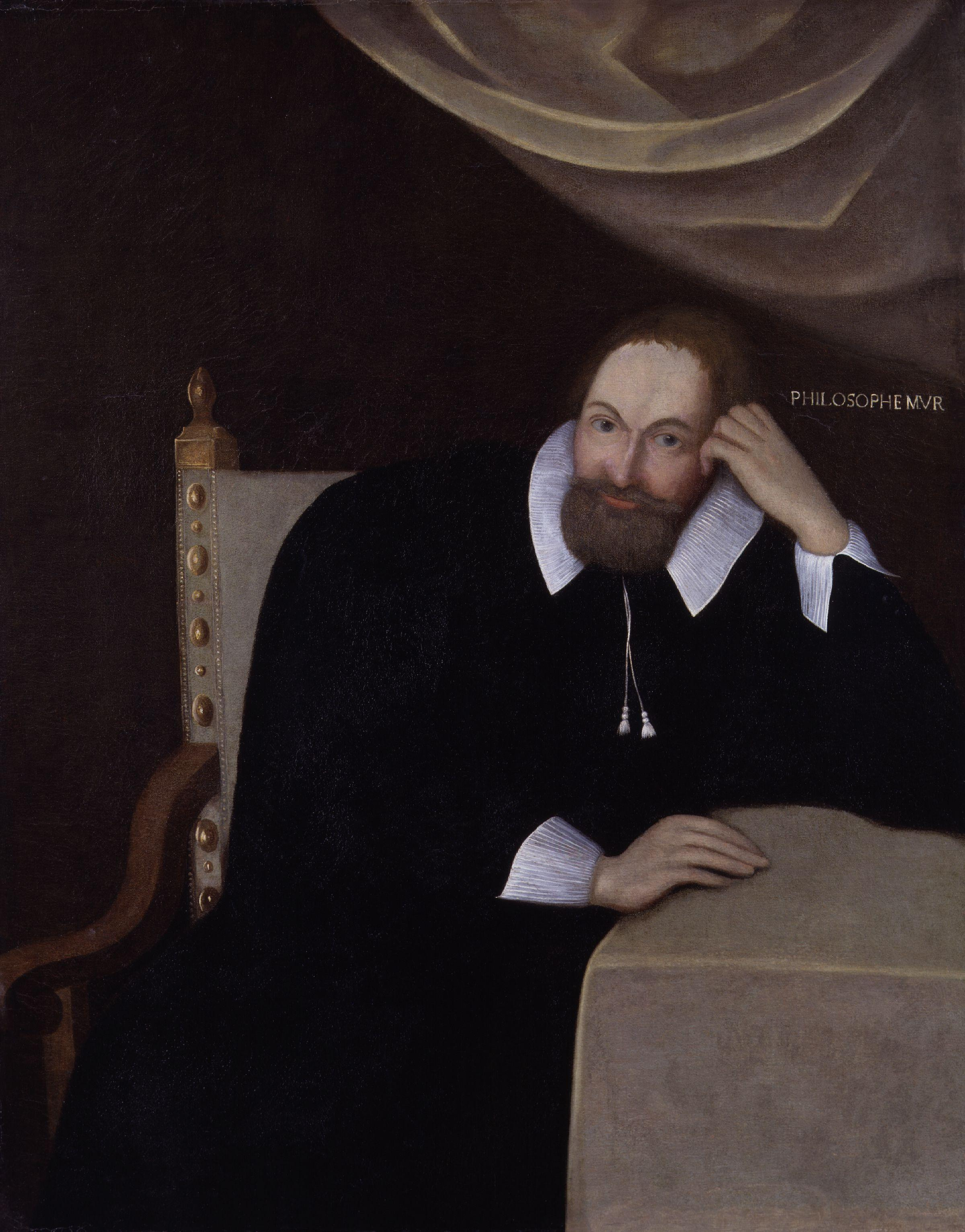 Sir Henry Wotton, by unknown artist. All images in this batch have an unknown author, but there is strong evidence it was first published before 1923 (based mainly on the NPG's estimated date of the work).